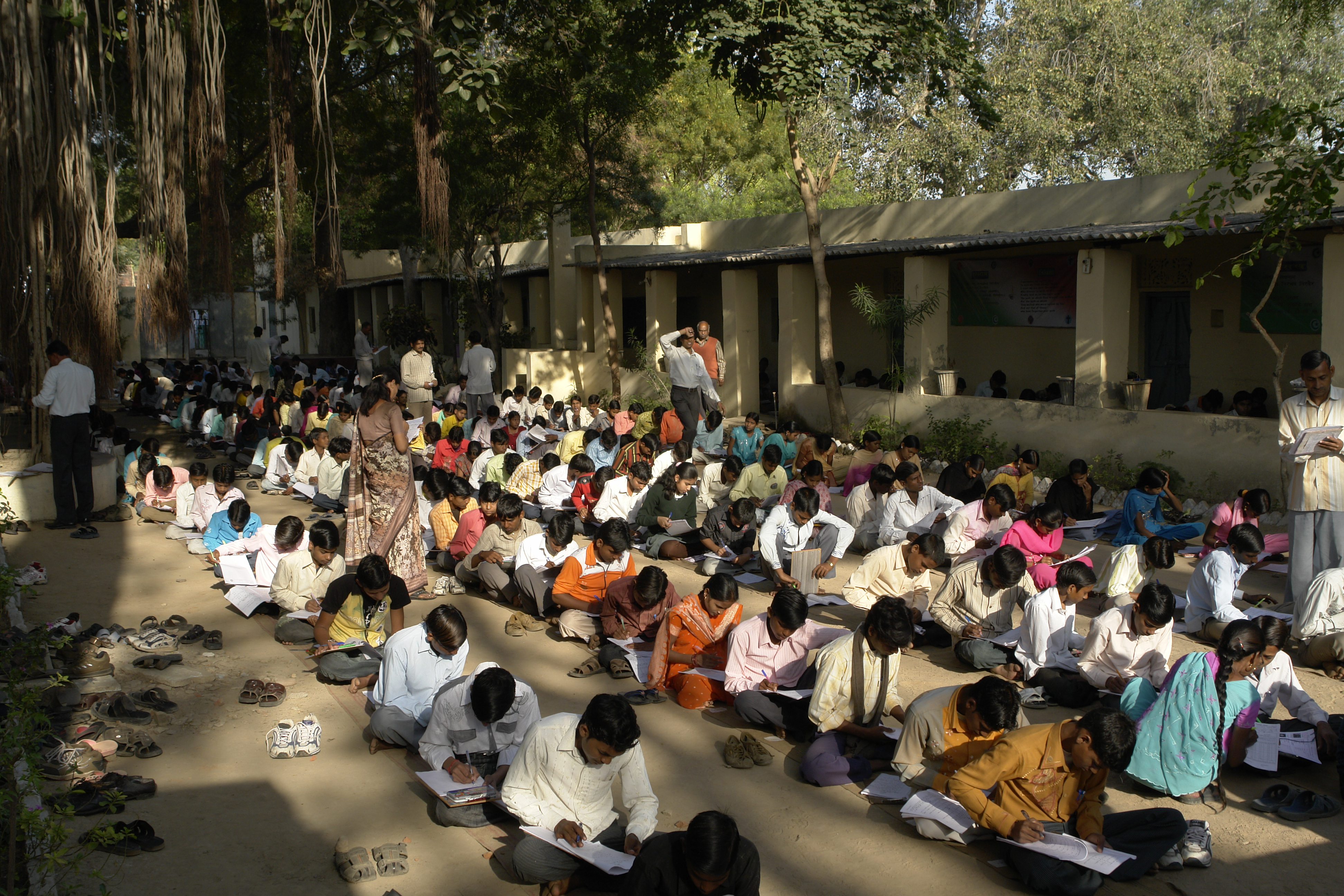 End of the year exams (maths, 10th class) in Mahatma Gandhi Seva Ashram, Jaura, India. All the students are grouped on a compound out of the school.